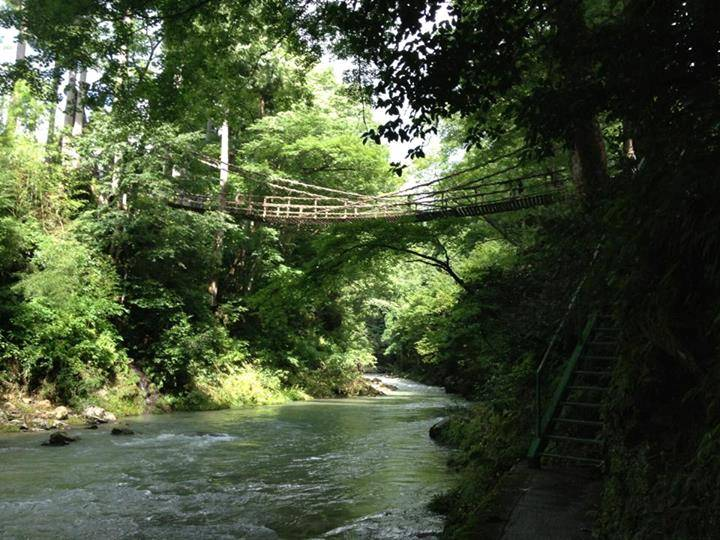 Kazurabashi or vine bride in Ikeda Town, Fukui, Japan